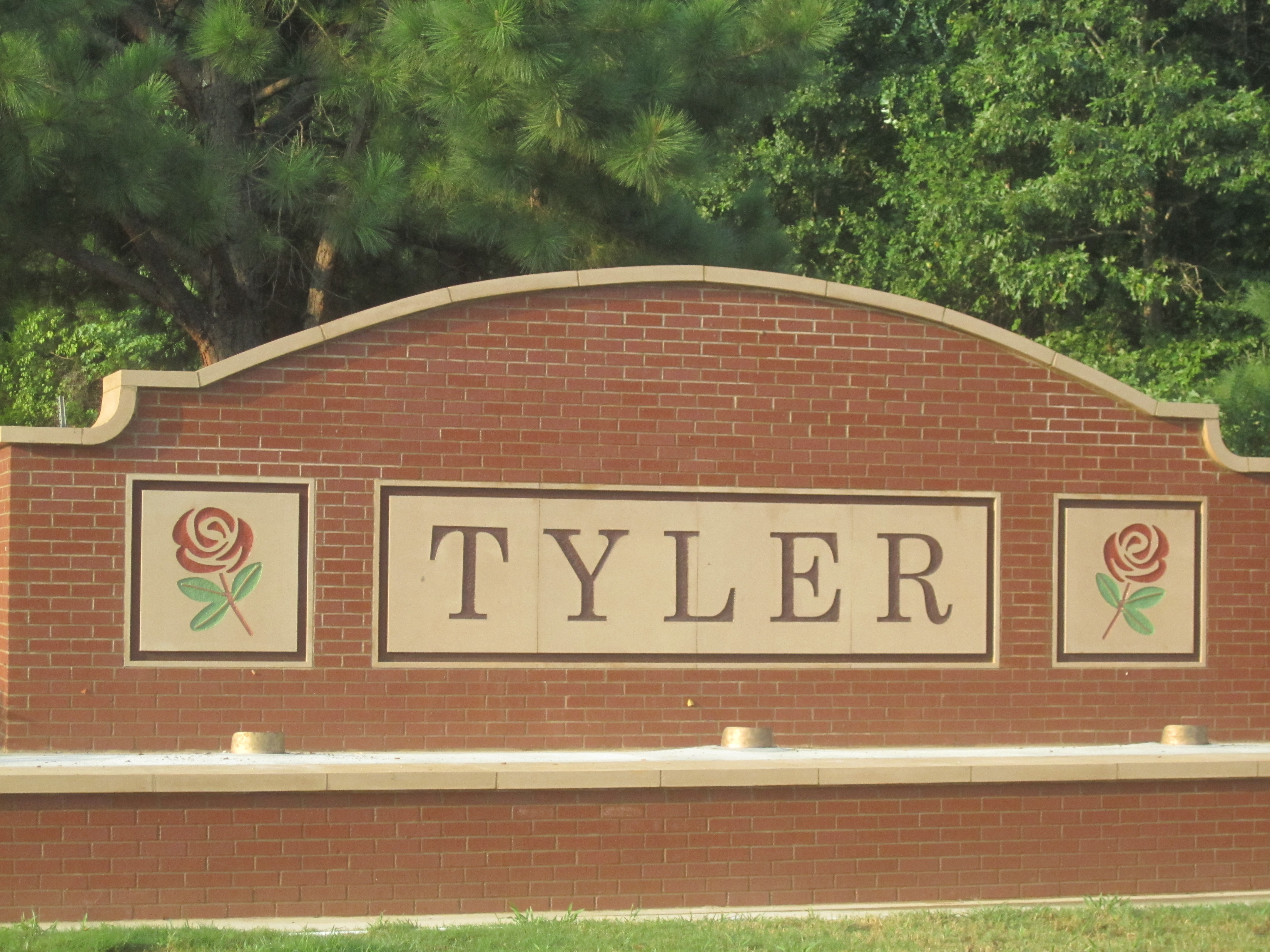 I took photo with Canon camera in Tyler, Texas.